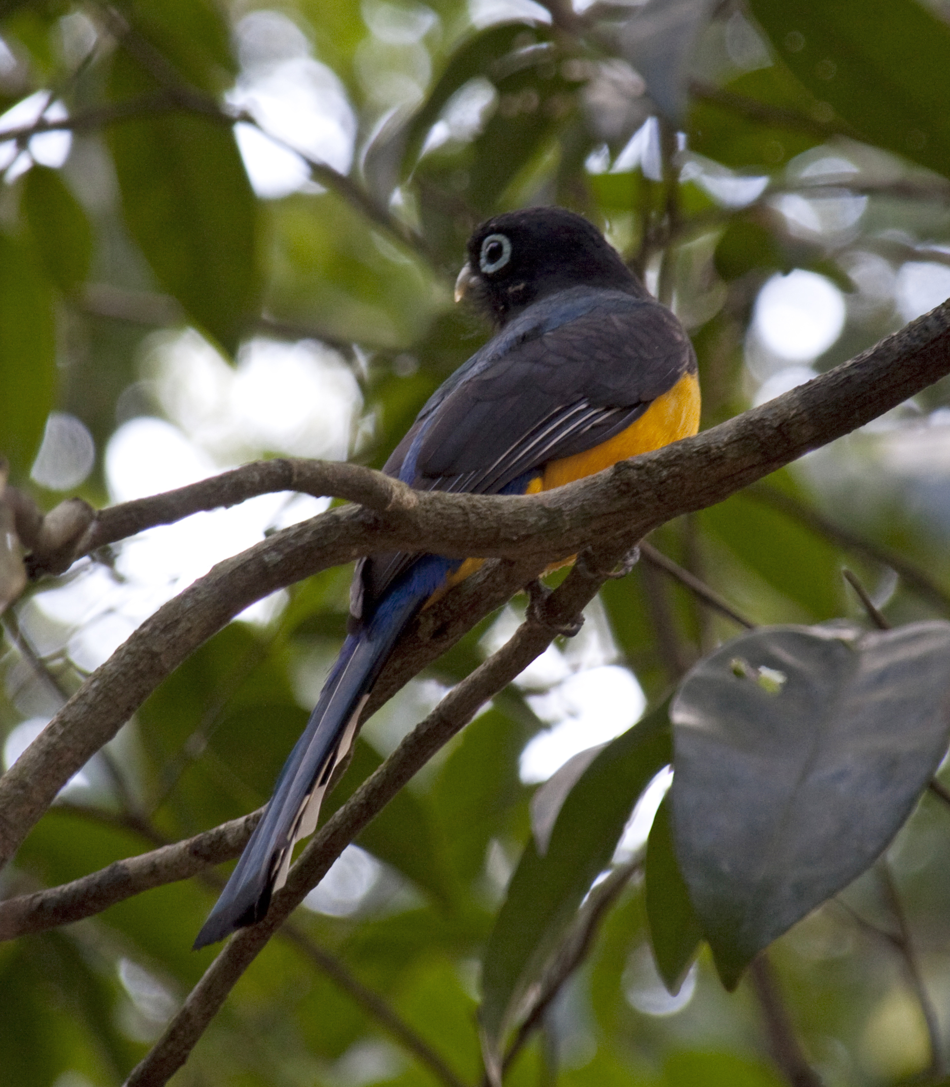 Black-headed Trogon near Tulum in Mexico.